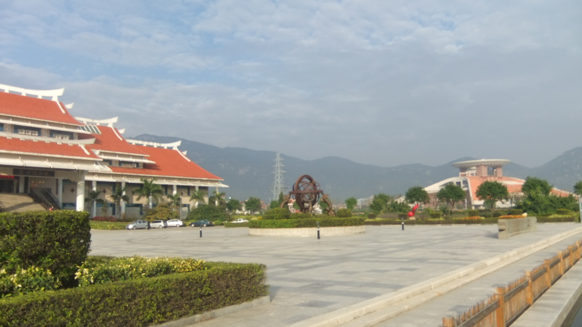 Quanzhou Museum. The main building.